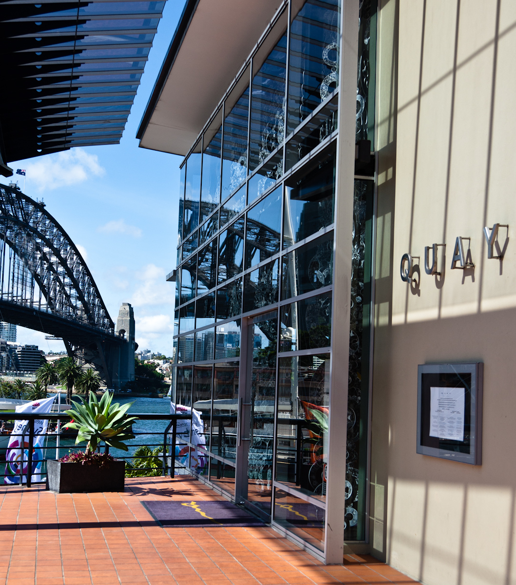 Quay restaurant entrance in Sydney with the Harbour Bridge in the background.